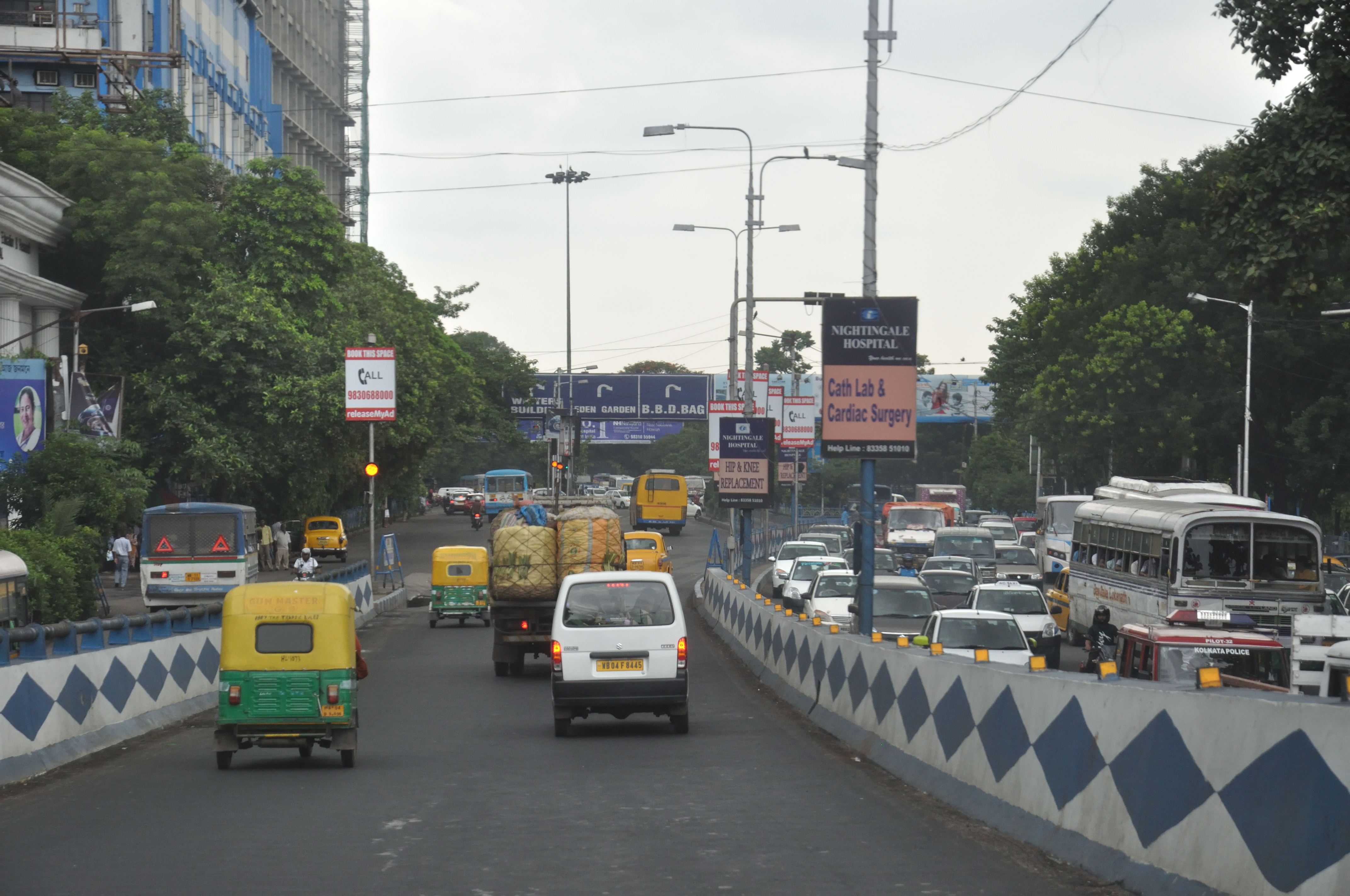 Photographed in Kolkata.